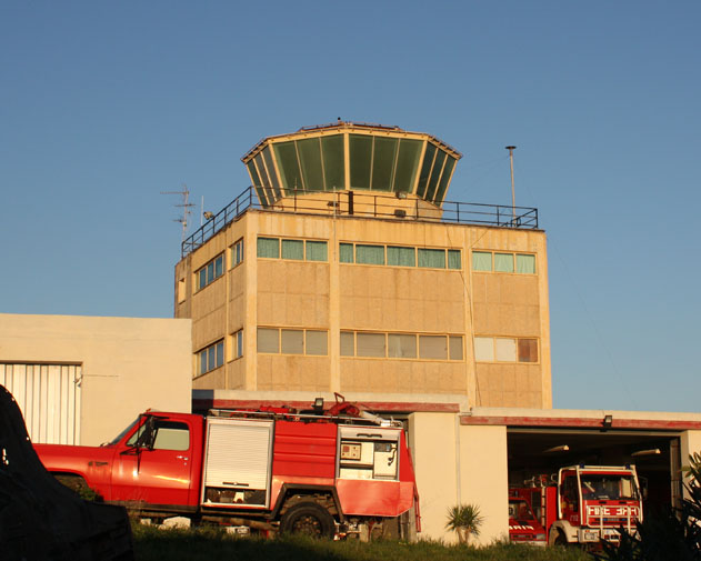 What remains of the control tower at the former Hal-Far Airfield, Malta